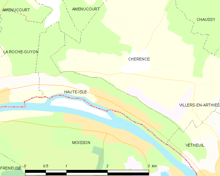 Map of French municipality Haute-Isle